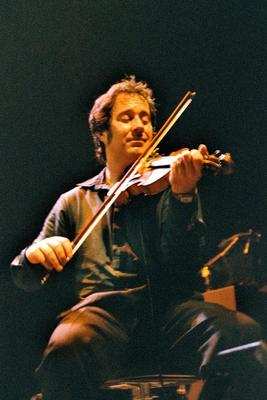 Steve Wickham performs with The Waterboys at a concert in The Hague, 2002.